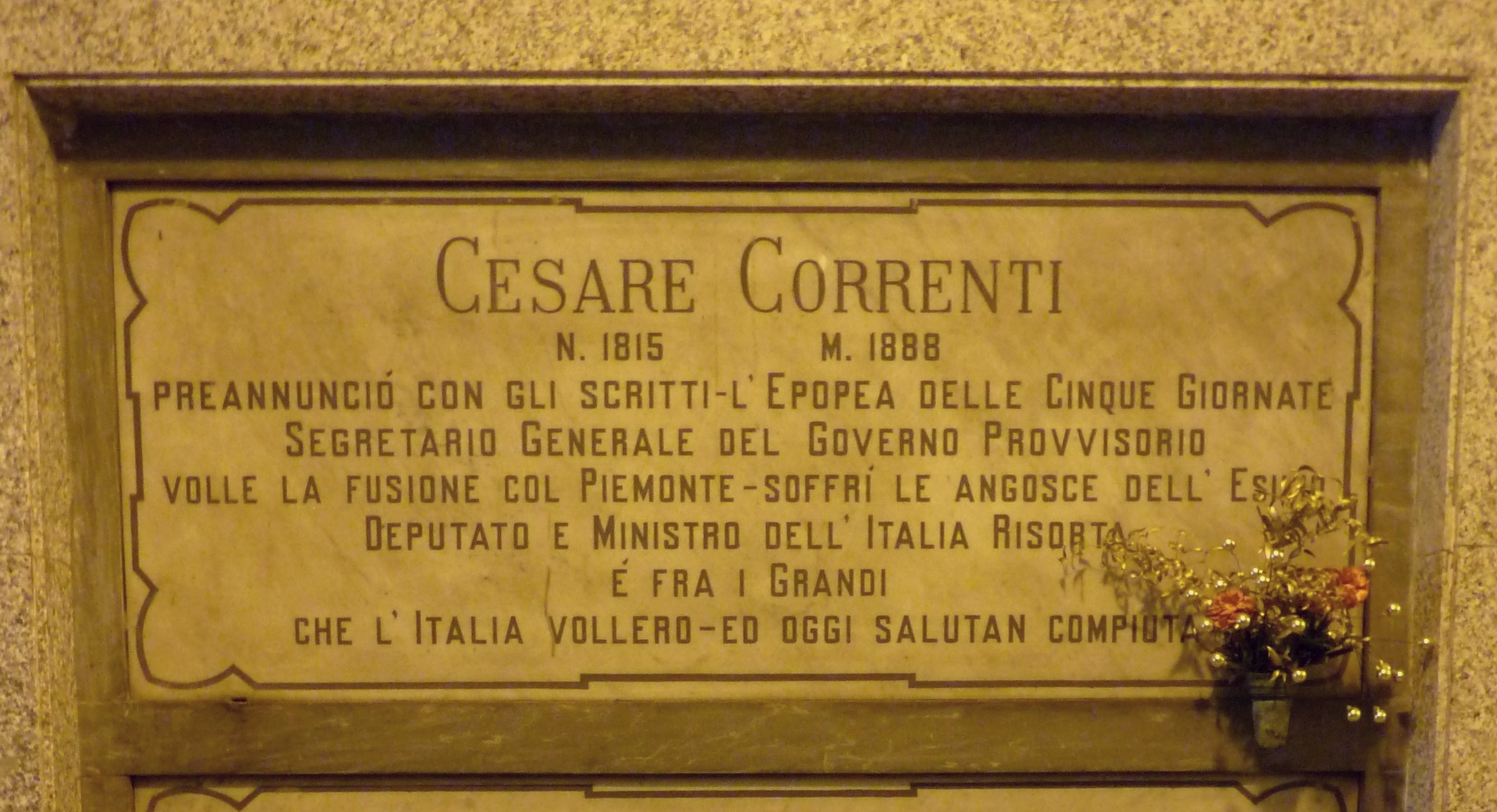 The grave of Italian revolutionary Cesare Correnti at the Monumental Cemetery of Milan, Italy.